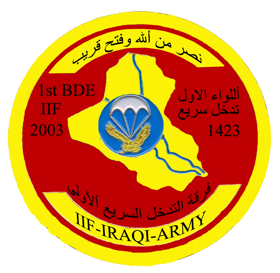 shoulder insignia